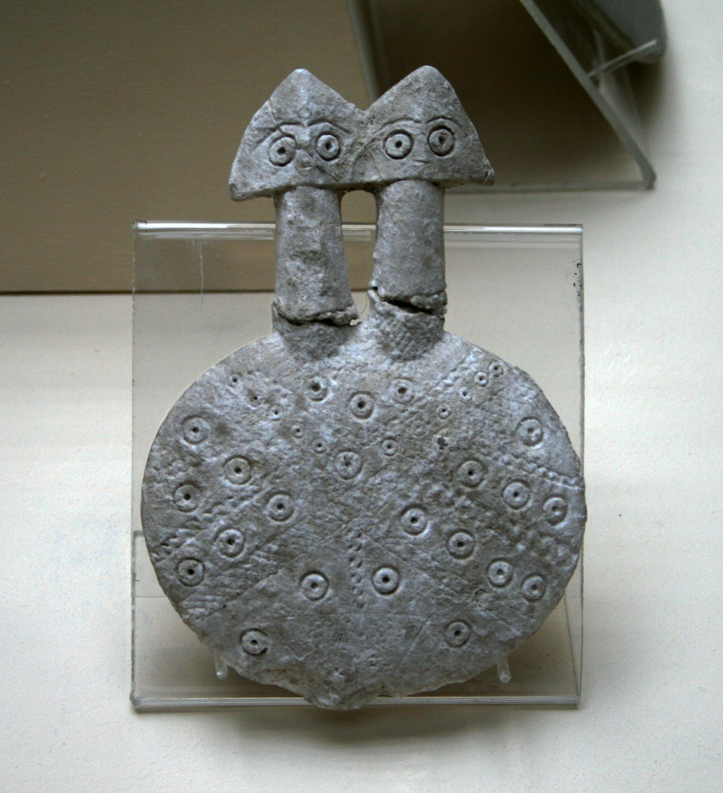 A two headed mother goddess figurine from Kültepe, an archaeological site in Turkey. This figurine is part of a larger group of flat marble goddess figurines found in Kültepe. This figurine especially is important since it closely resembles two-headed mother goddess figurines of Alacahöyük.